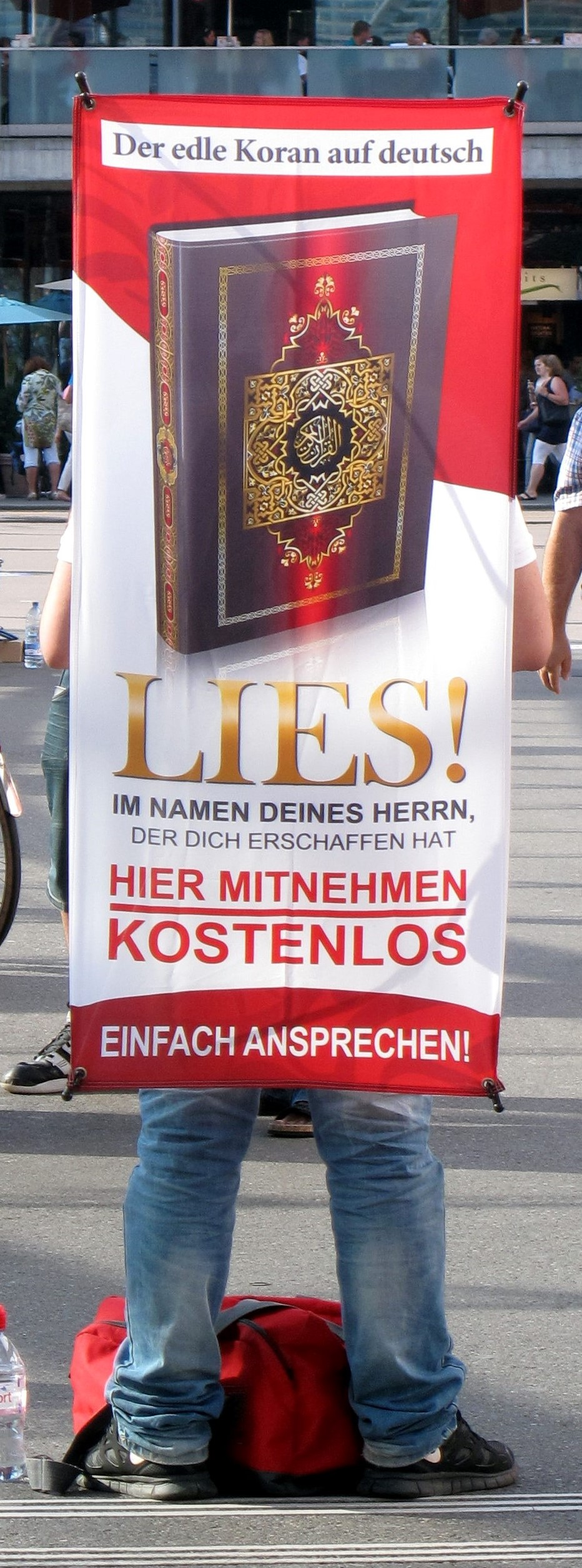 Islamic Proselytism near Bern railway station. Volunteers give Quran directly in the street.